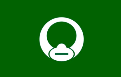 Flag of Ichinohe Iwate